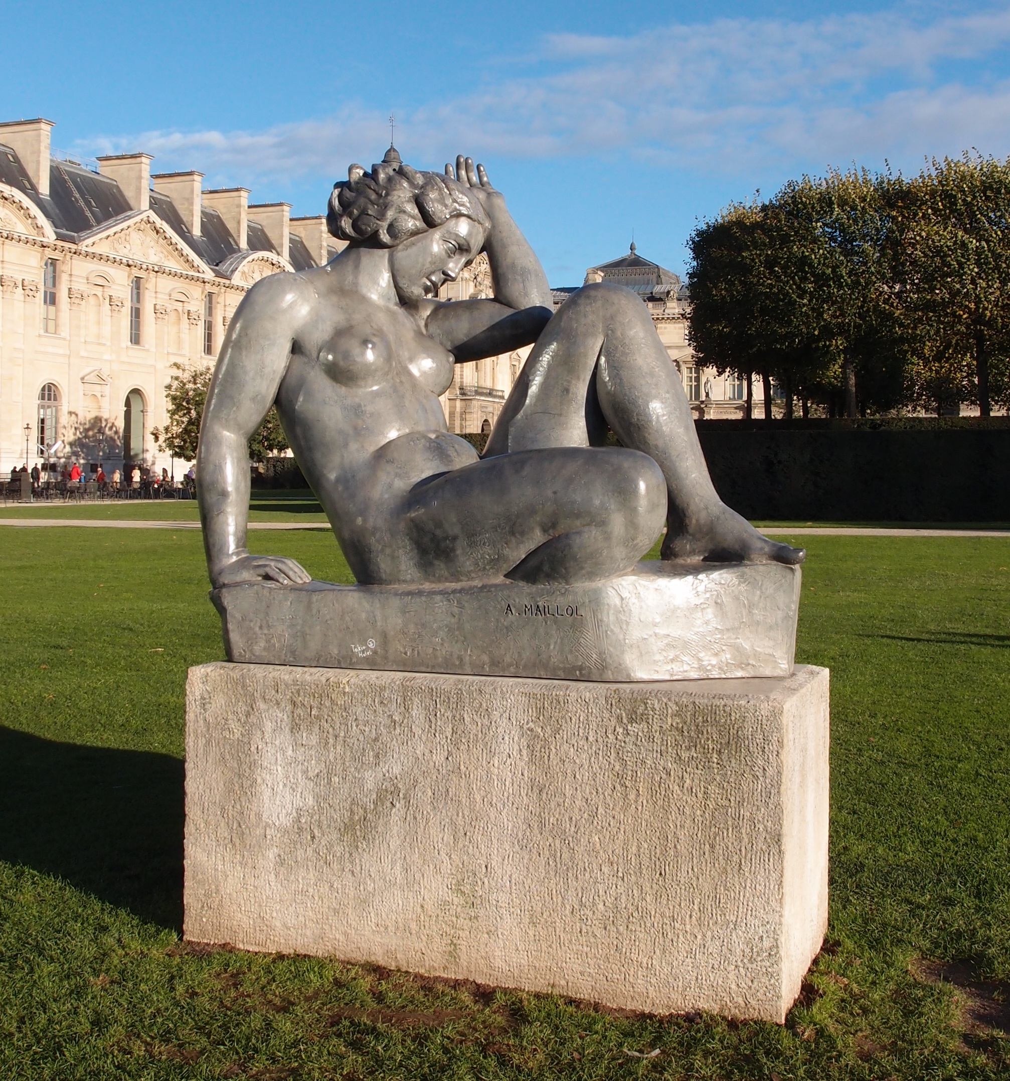 Statue in the Jardin des Tuileries, Paris.